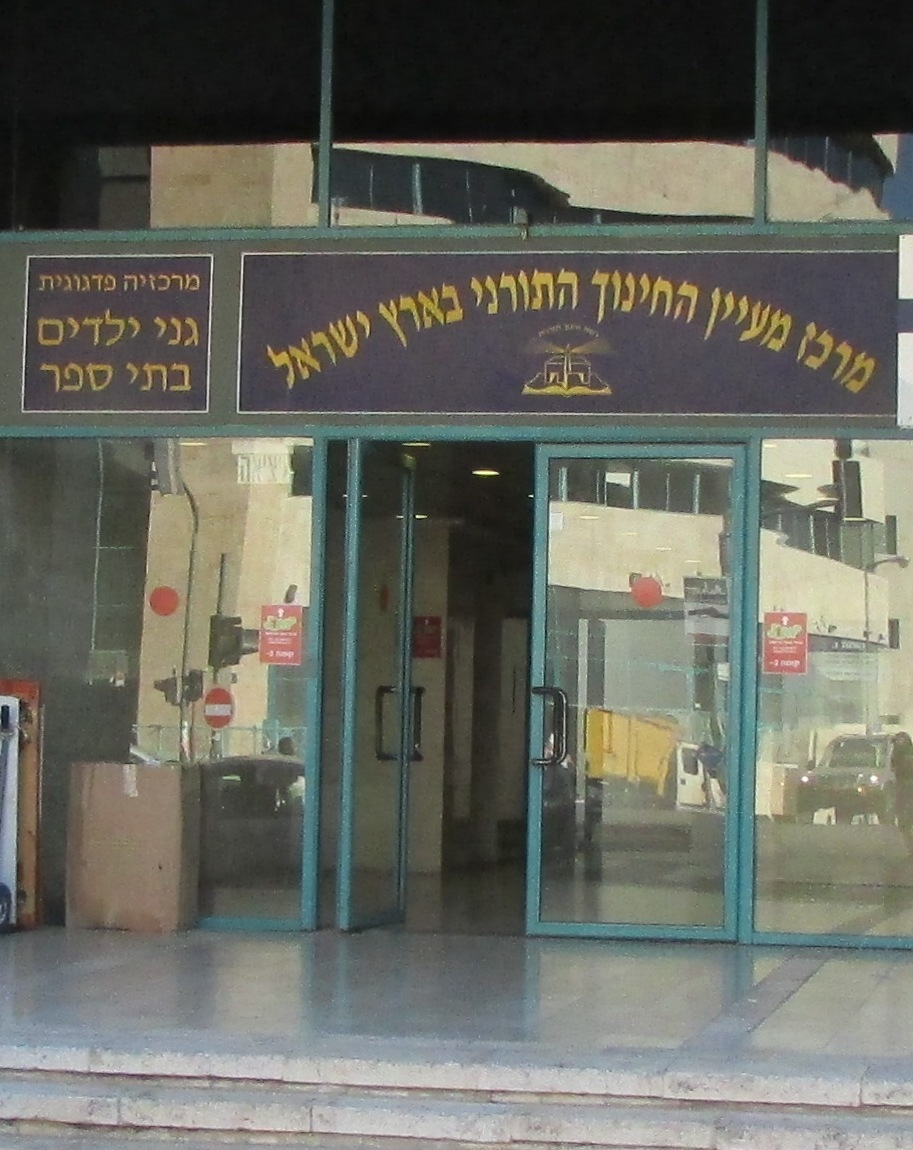 entrance to offices of maayan hachinuch hatorani